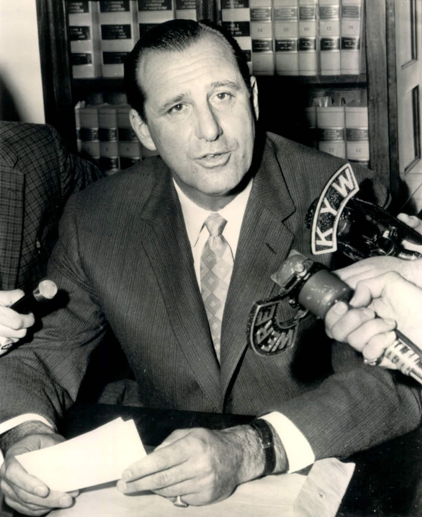 Cleveland Indians general manager Hank Greenberg speaks during a press conference in Cleveland.